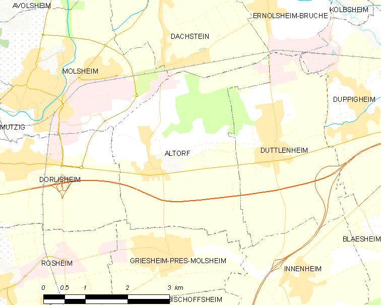 Map of French municipality